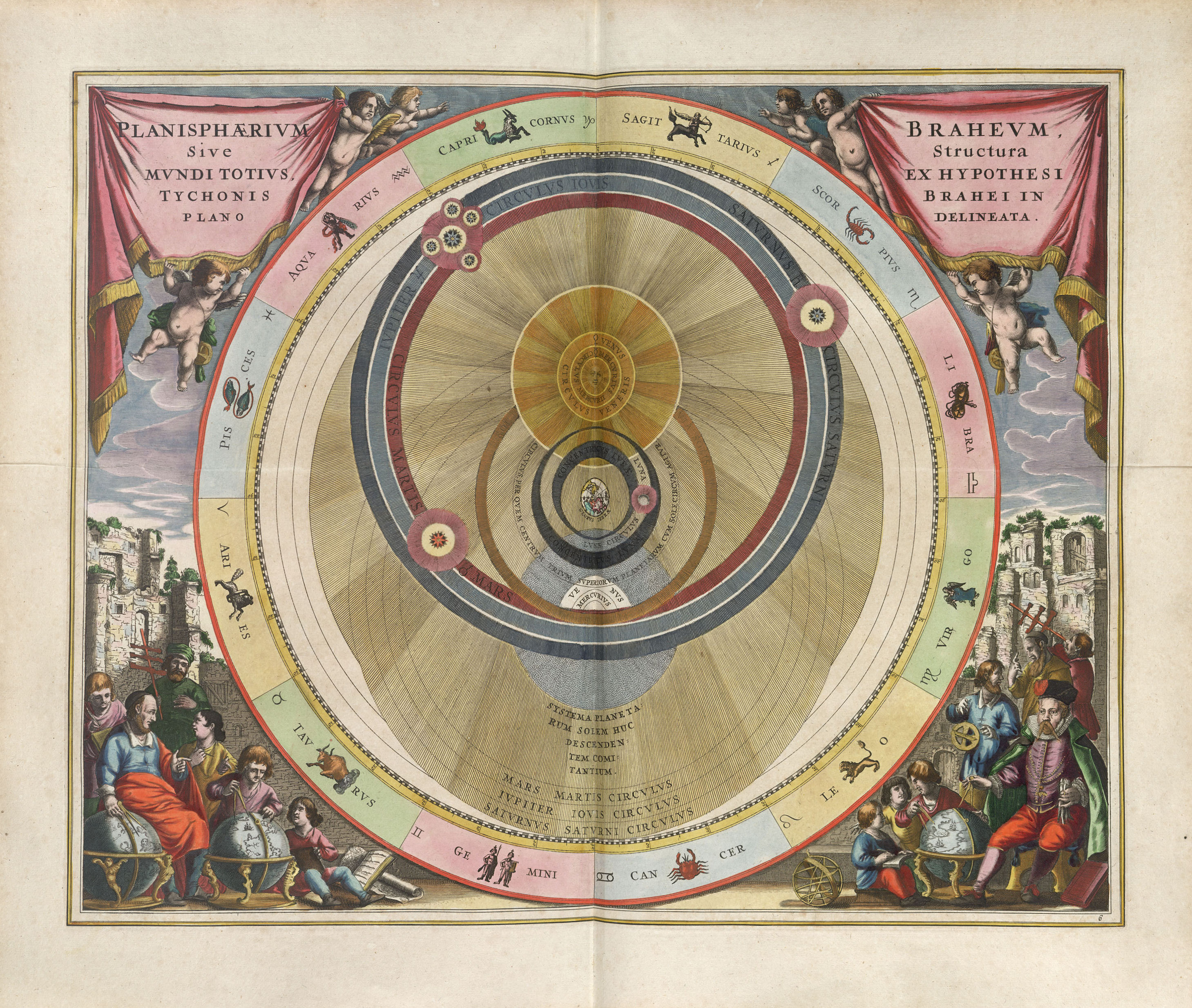 Andreas Cellarius: Harmonia macrocosmica seu atlas universalis et novus, totius universi creati cosmographiam generalem, et novam exhibens. Plate 6. PLANISPHÆRIVM BRAHEVM, Sive Structura MVNDI TOTIVS, EX HYPOTHESI TYCHONIS BRAHEI IN PLANO DELINEATA - The planisphere of Brahe, or the structure of the universe following the hypothesis of Tycho Brahe drawn in a planar view.